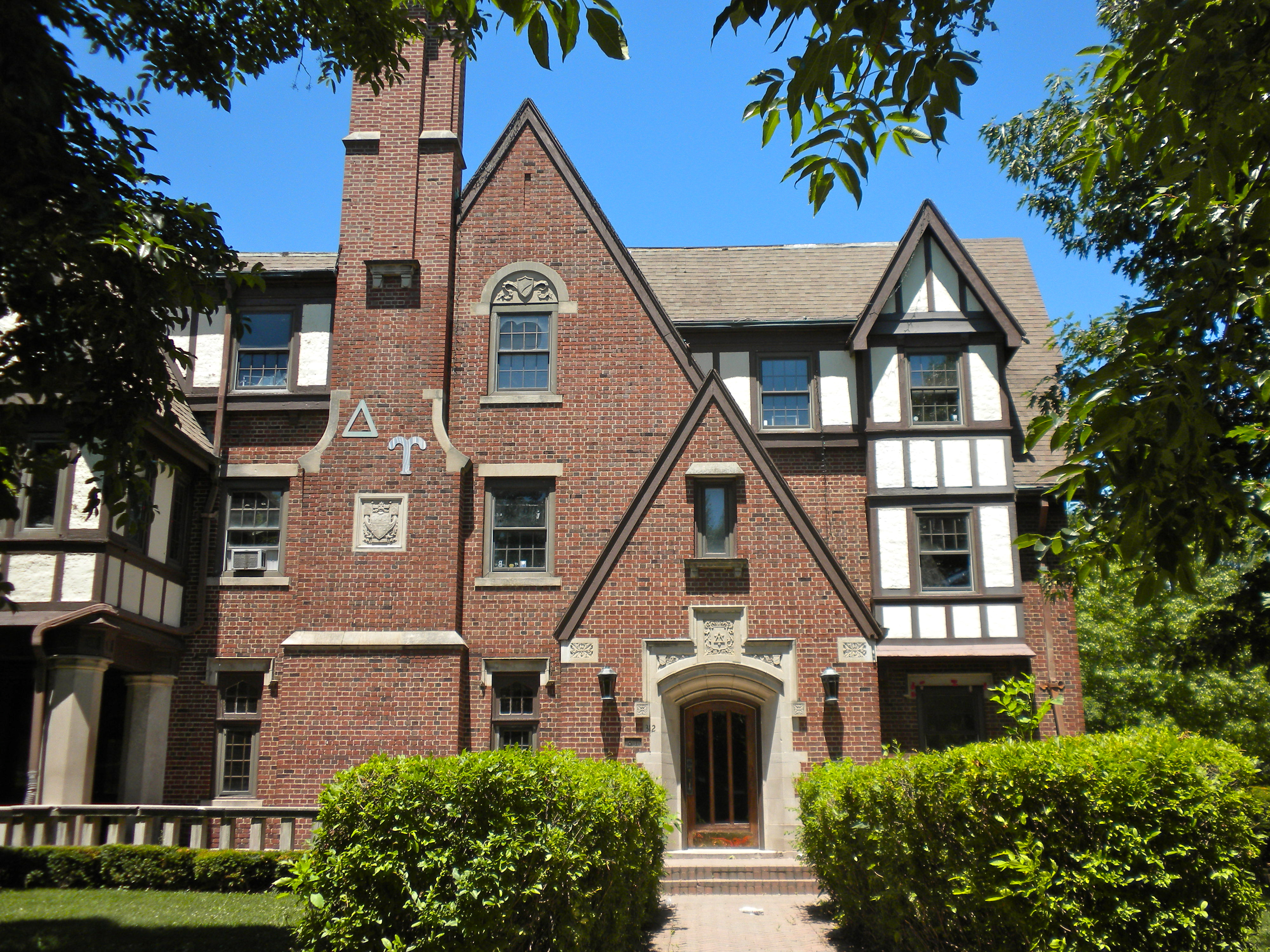 Delta Upsilon Fraternity House at the University of Illinois on the NRHP since May 21, 1990. At 312 E. Armory Ave., Champaign, Illinois